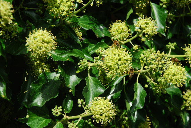 Gwenyn ar Flodau Eiddew - Bees on Ivy Flowers When the ivy (hedera helix) flowers in September it is immediately crowded with bees and other nectar seekers.